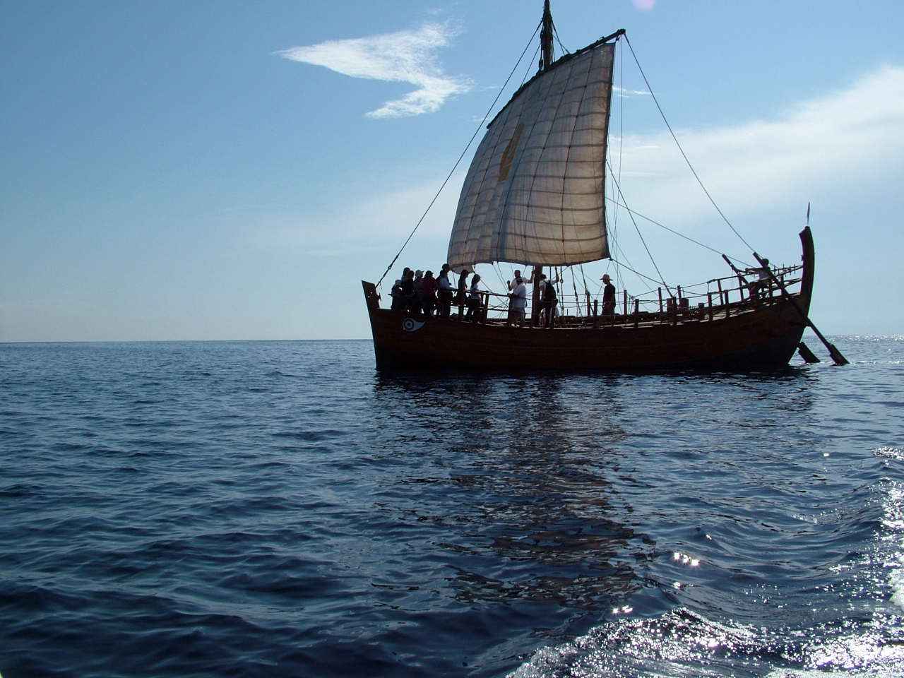 This is a photo of the Kerynia Liberty Ship, taken at October 6 2012 in the shores of Lemesos, Cyprus.